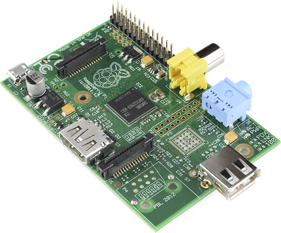 Raspberry Pi